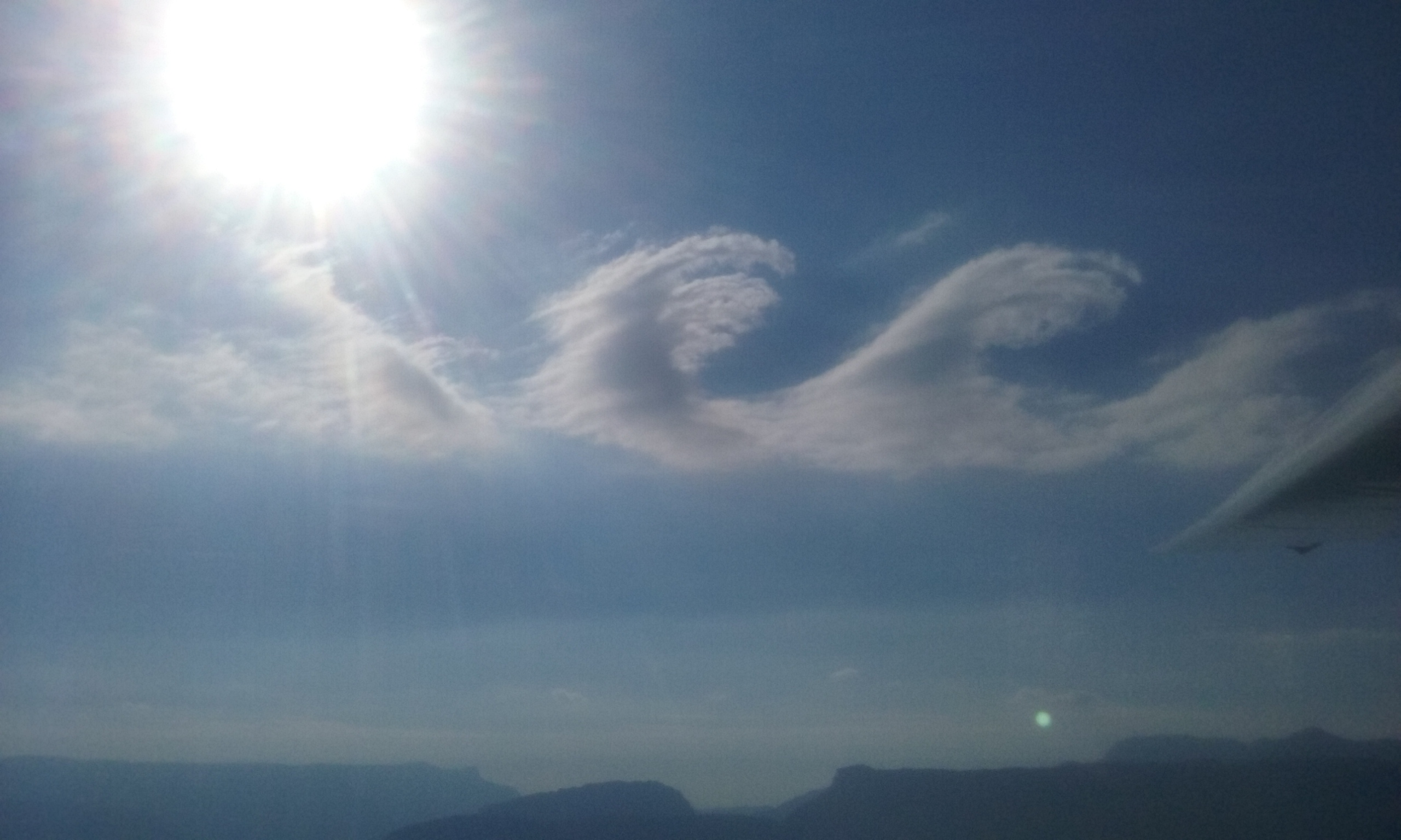 Kelvin-Helmholtz instability seen from a sailplane above Grenoble in France.